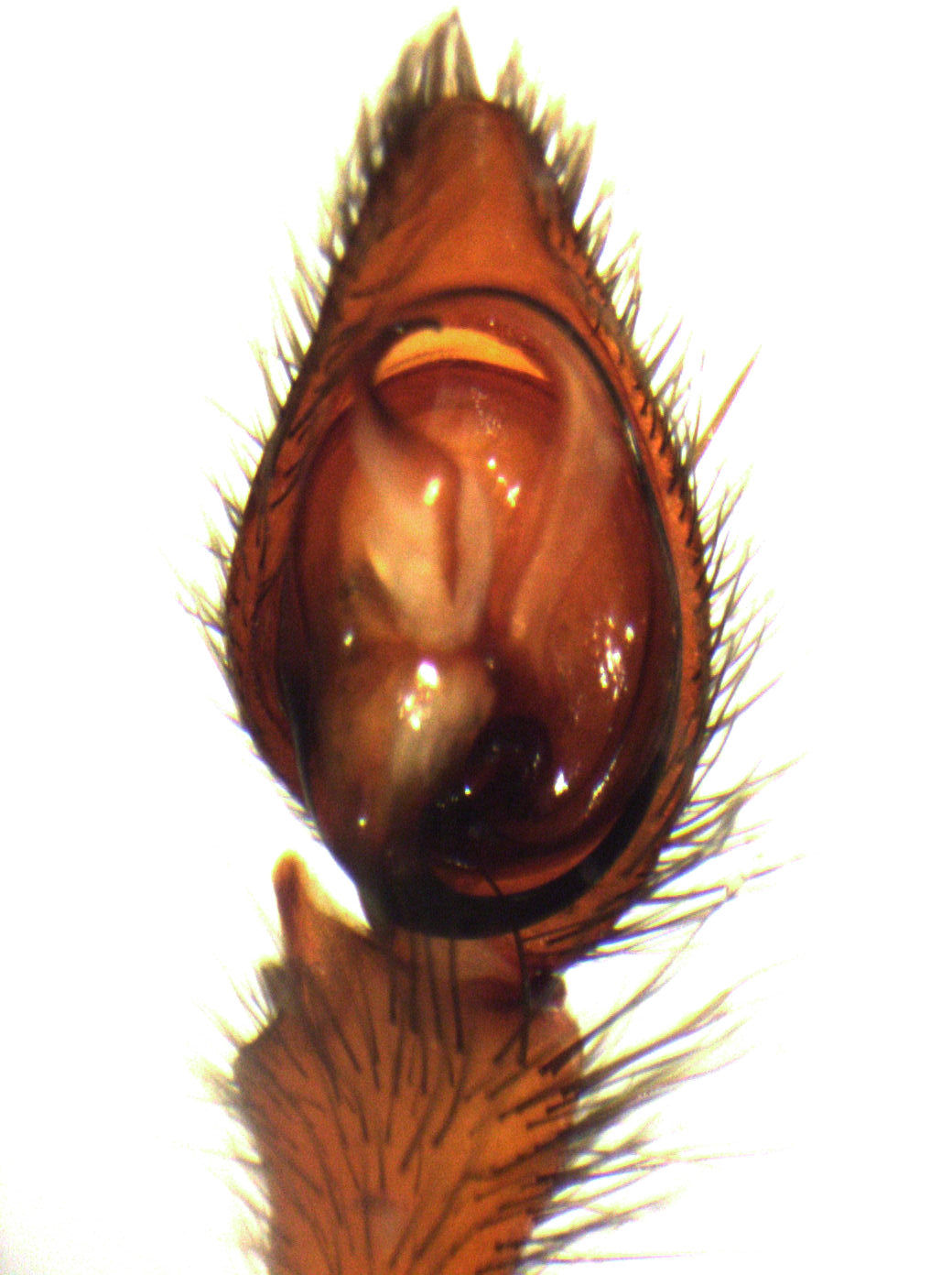 Huara grossa (male palp)